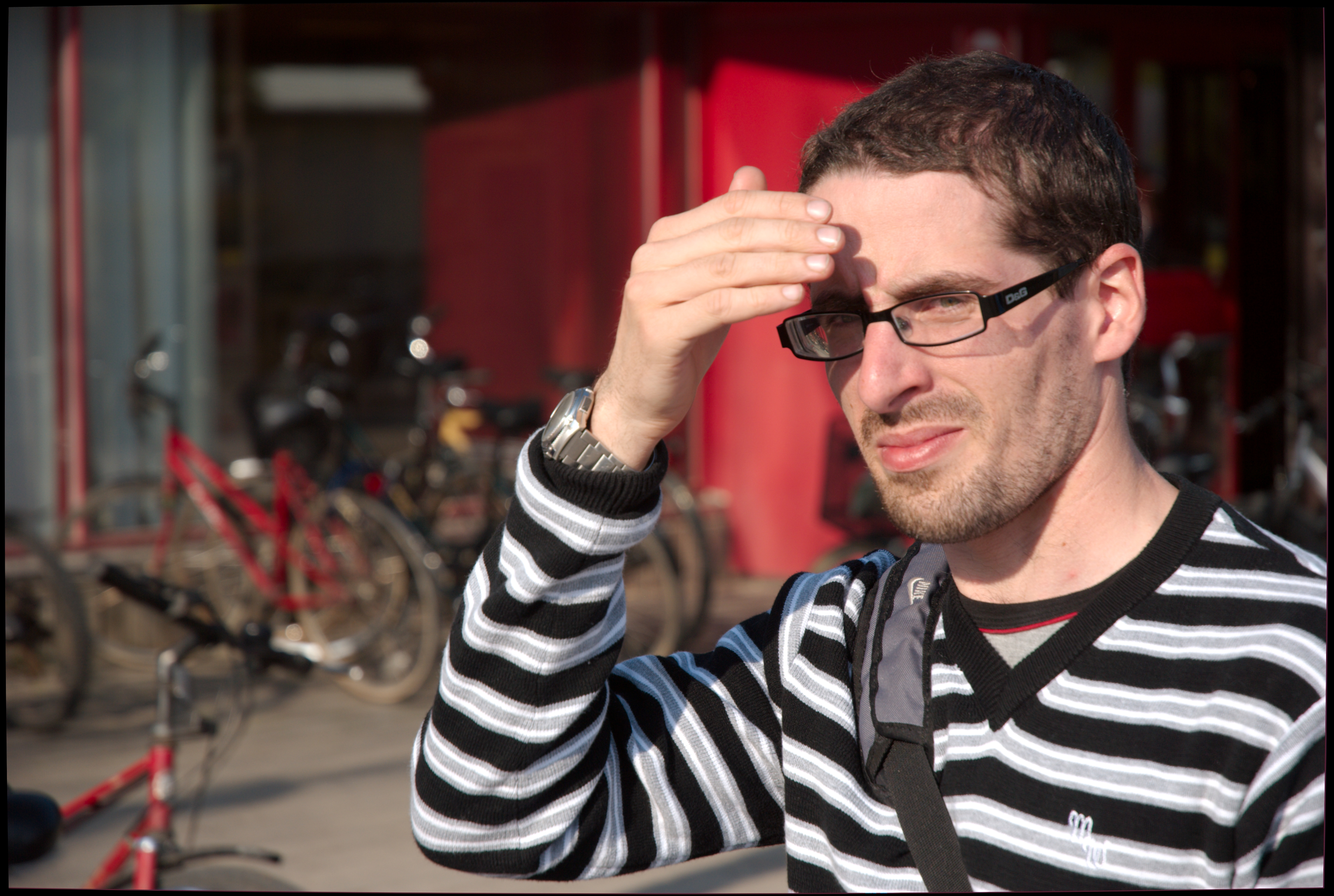 Marcin de Kaminski at Linköping University